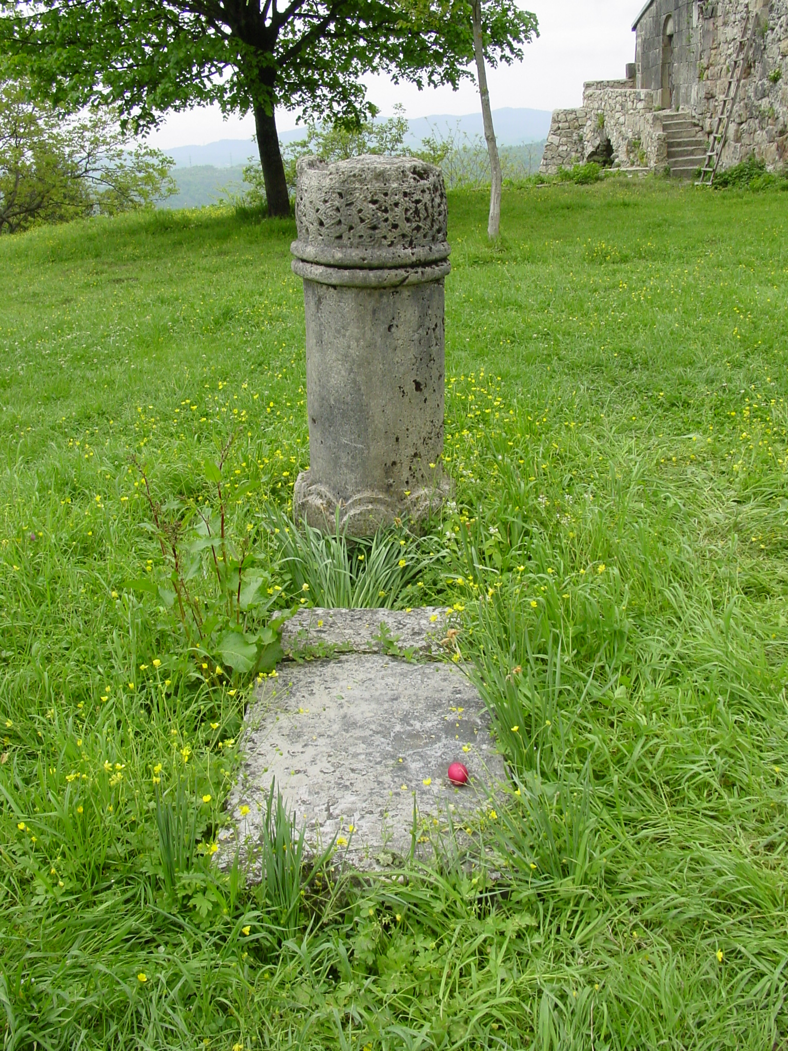 Jesus' blood on an old grave